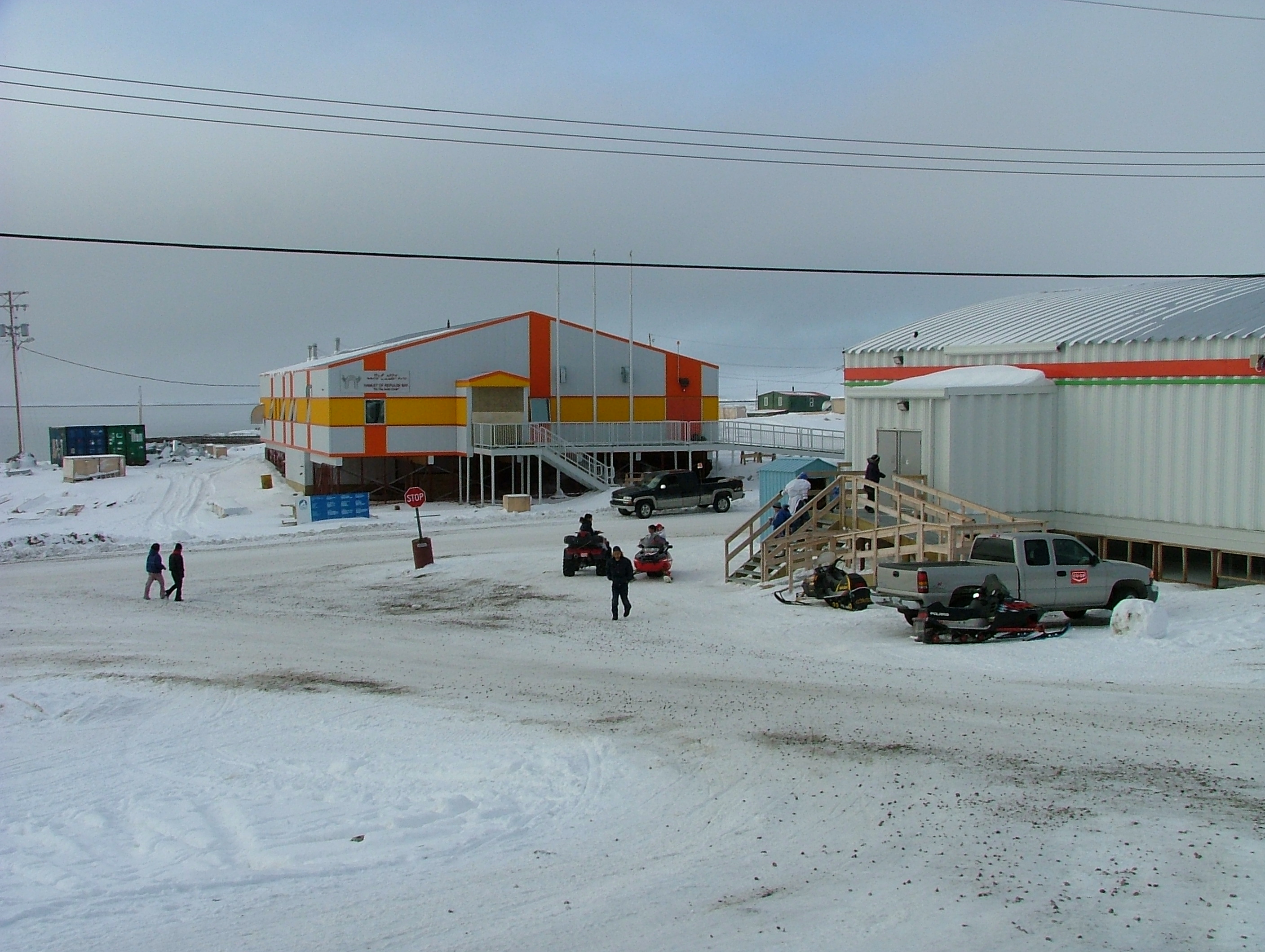 Co-op and Hamlet Office, Repulse Bay, Nunavut, Canada